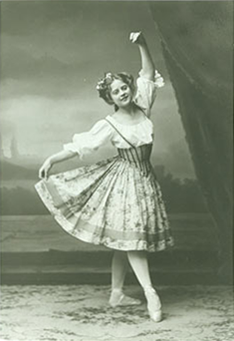 "Grethe Ditlevsen in 1st act of Napoli, Royal Danish Ballet 1905."